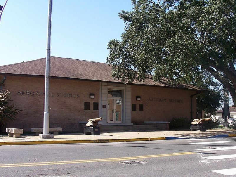 Photo of brass cannon in front of LSU ROTC building